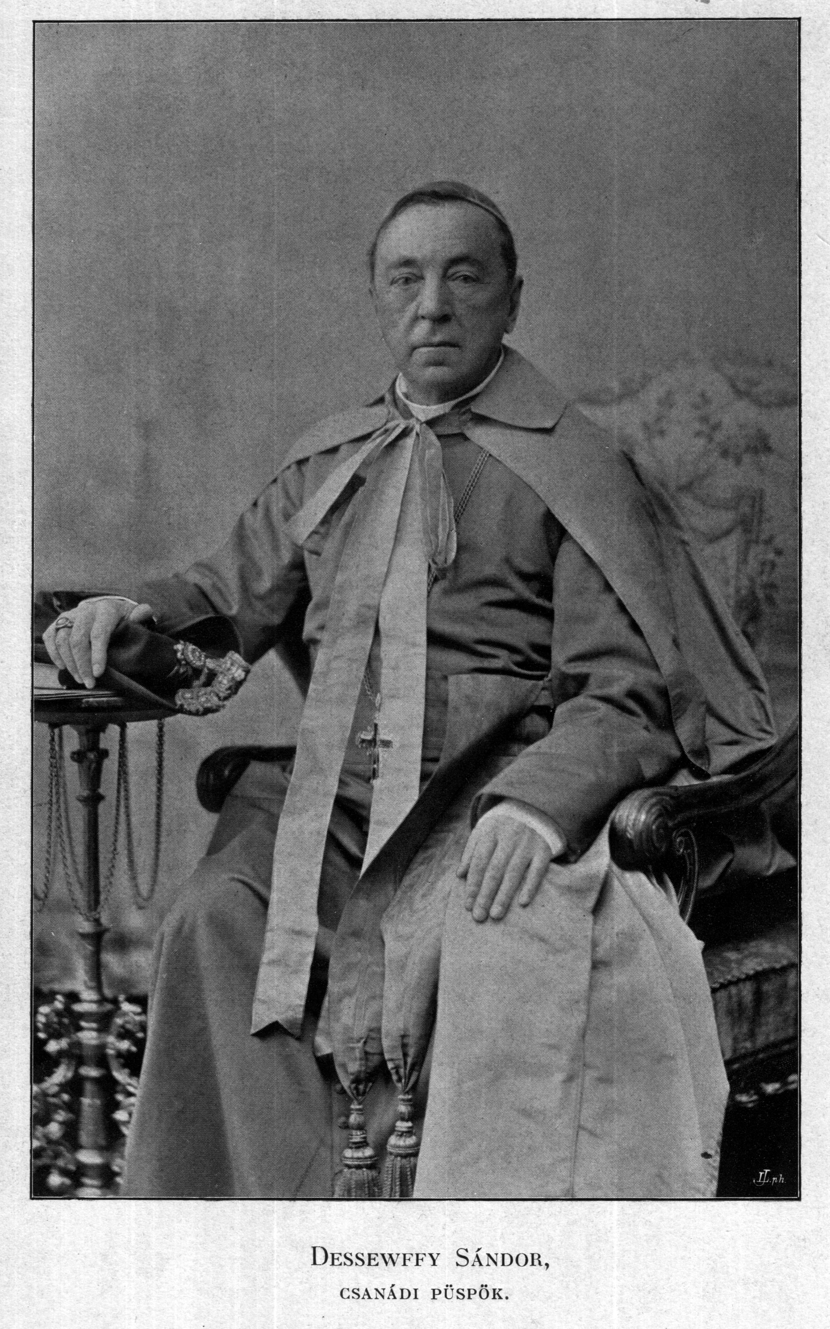 Bishop of diocese Csanád in Hungary in year 1900 (photo in book from that time) with inscription in Hungarian